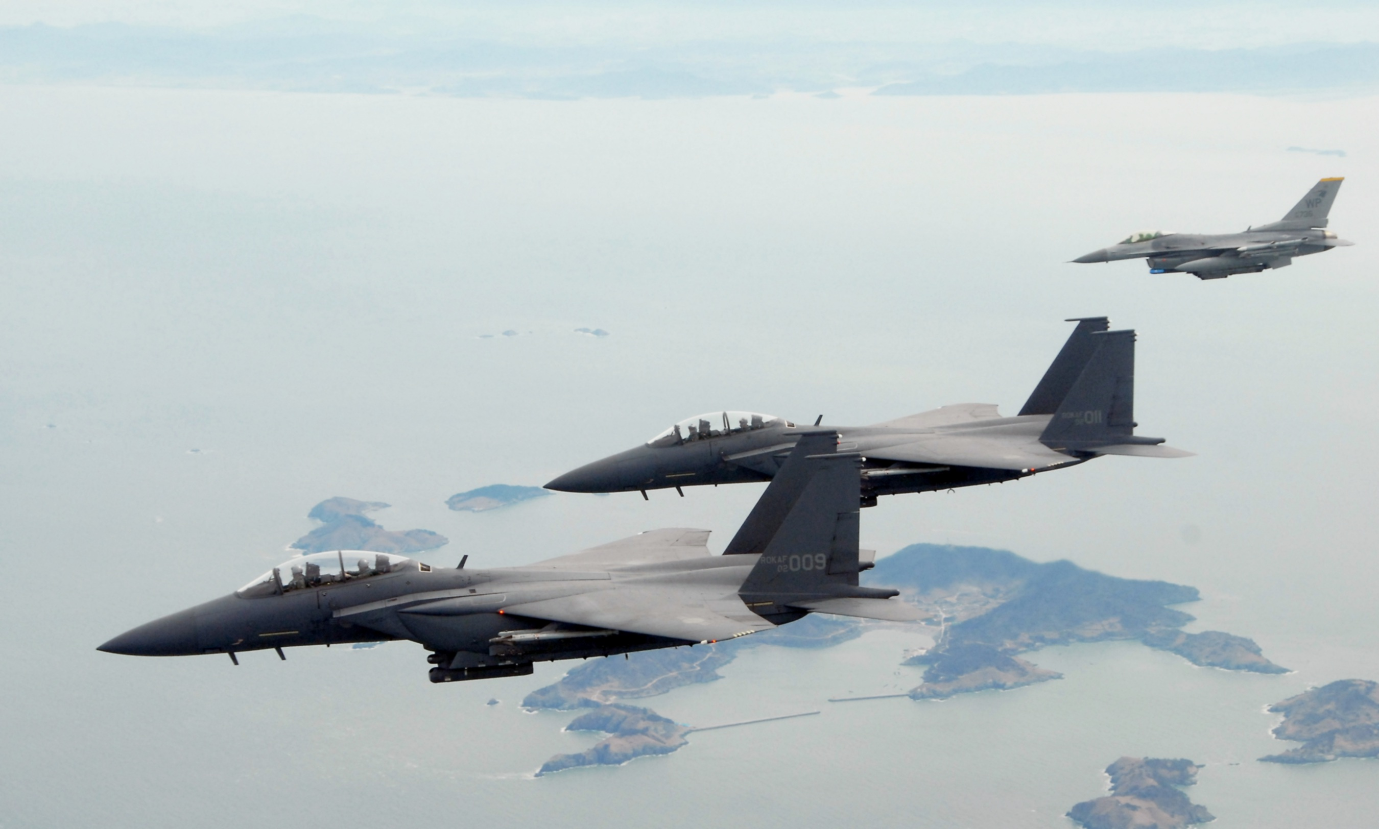 Two Republic of Korea Air Force Boeing F-15K Slam Eagles from the ROKAF 11th Tactical Fighter Wing out of Daegu Air Base, fly with a U.S. Air Force General Dynamics F-16C Fighting Falcon from the 8th Fighter Wing on 11 March 2009 over Kunsan Air Base, South Korea. The three aircraft were participating in the Buddy Wing program, an operation designed to increase U.S. Air Force and South Korean air force interoperability.